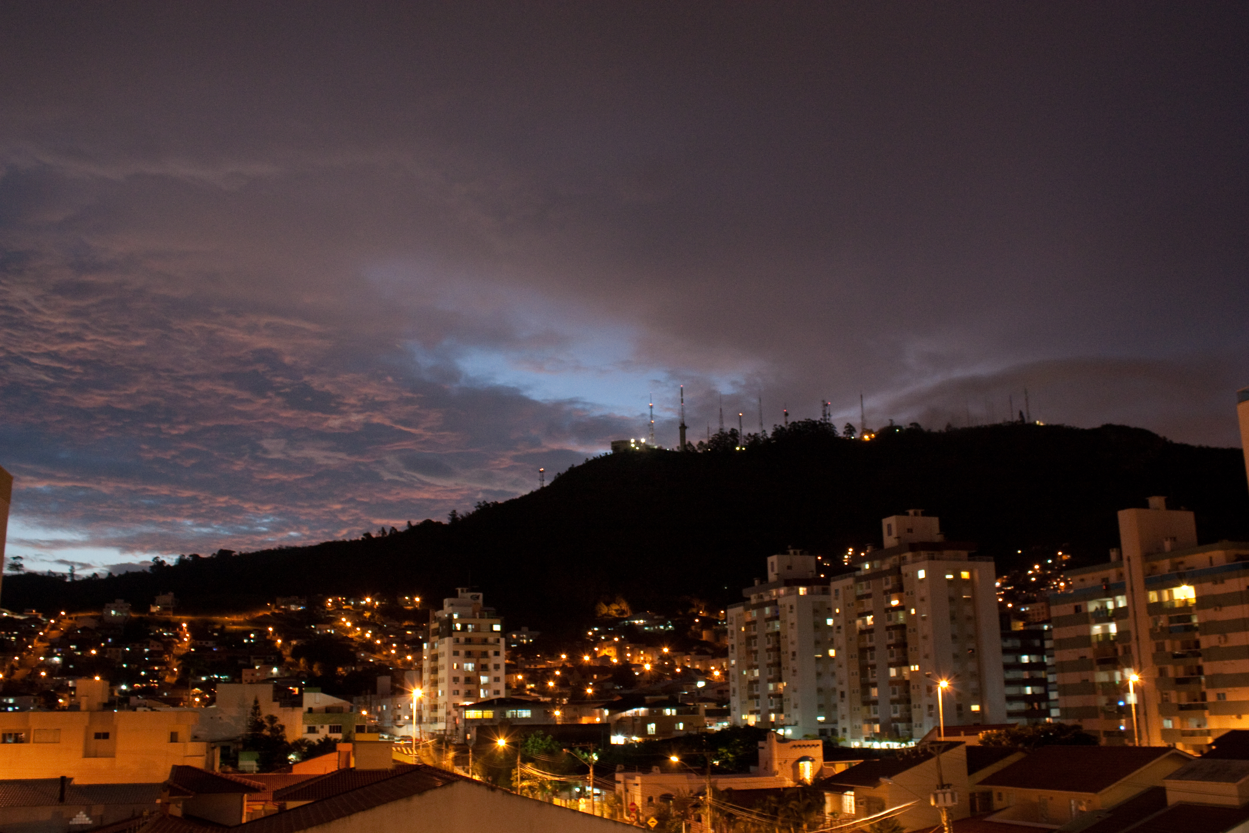 Sunset in Florianópolis, Brazil. In the foreground, one can see the houses and buildings in Trindade, a mostly residential neighbourhood near the city centre; in the background is Morro da Cruz, with RBS TV regional headquarters and its aerials on the top.